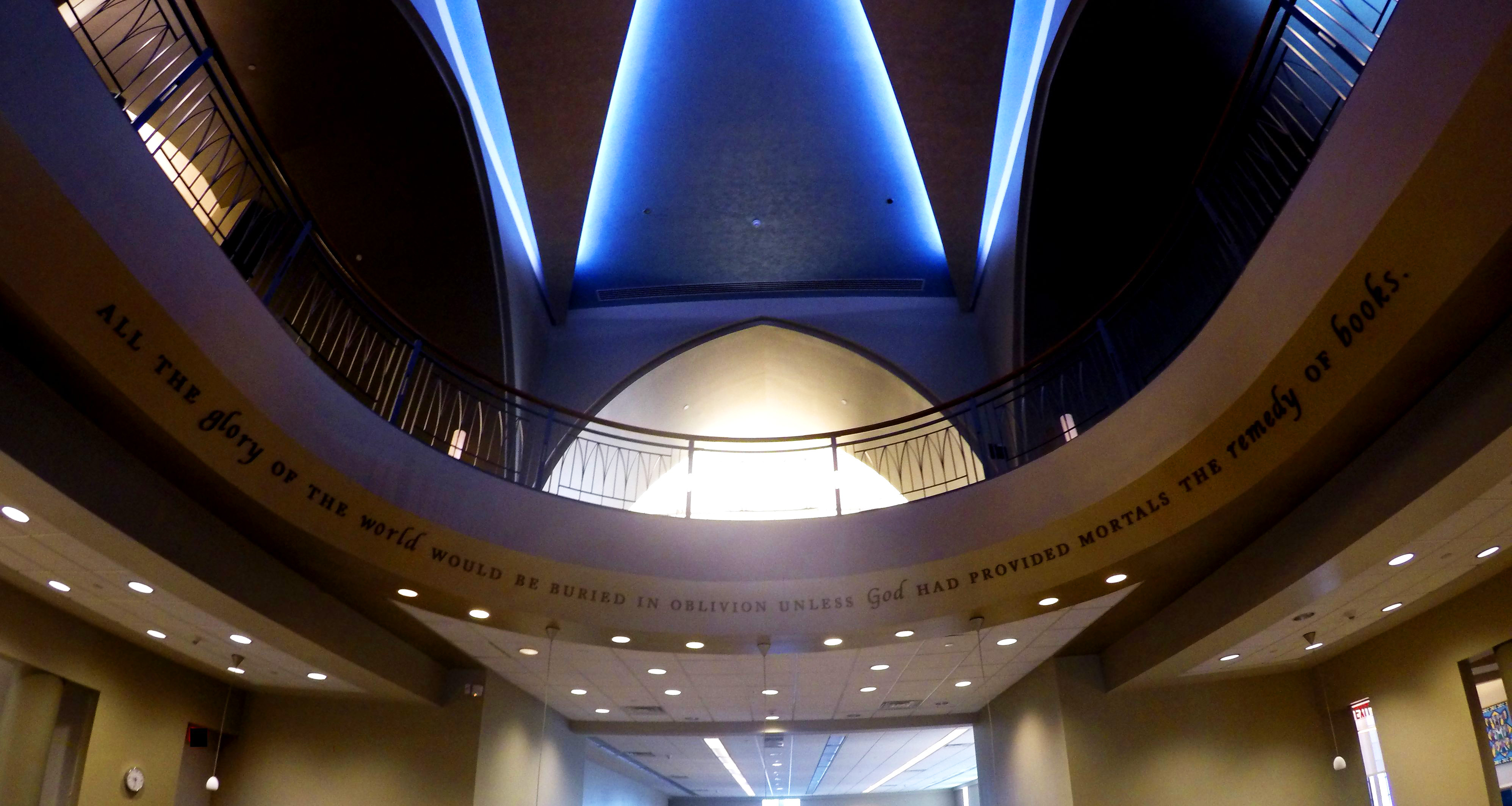 DCIM\100GOPRO\GOPR0279.